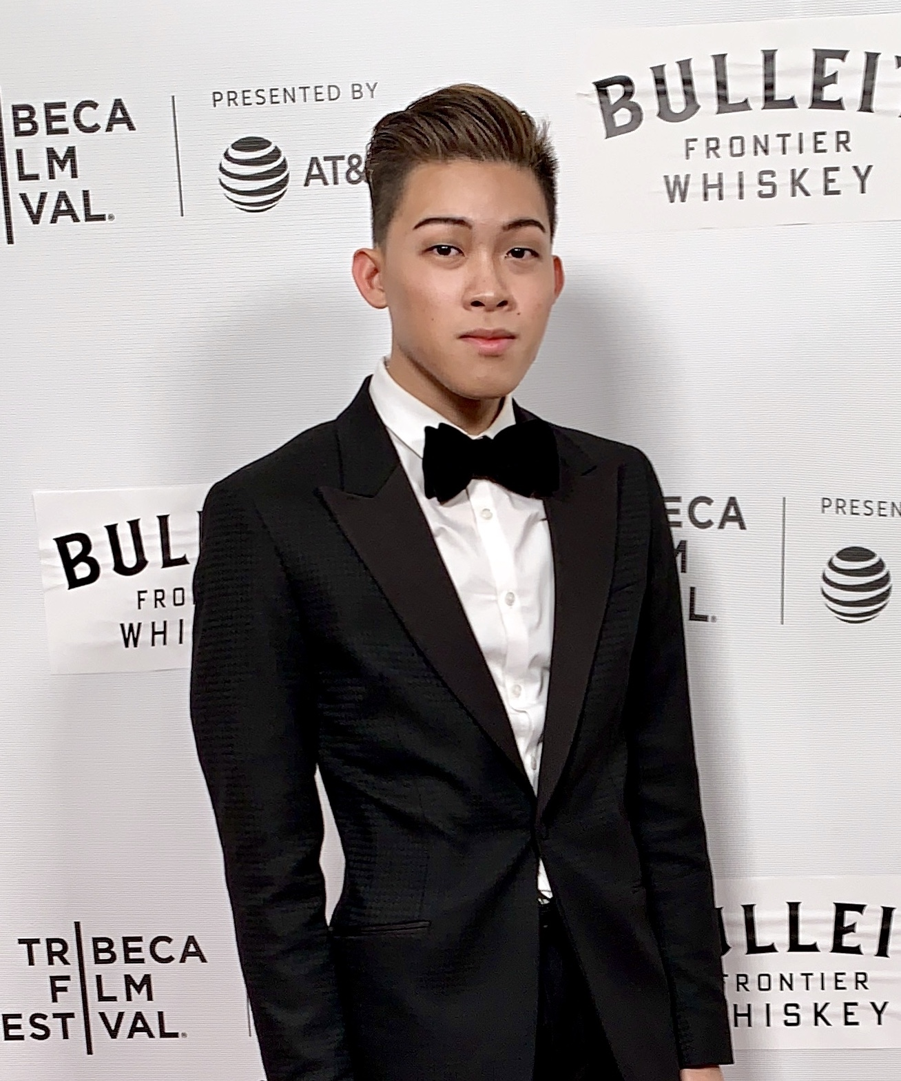 Darius at Tribeca Film Festival 2019